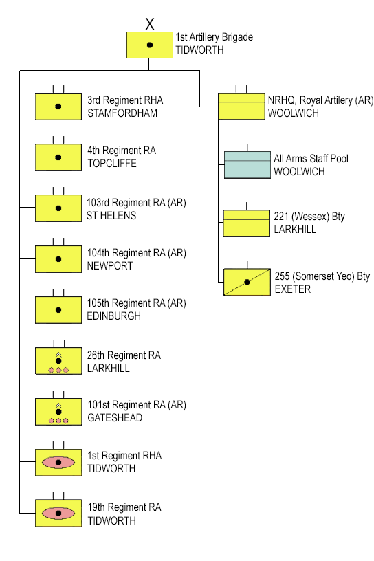 Updated structure of 1st Artillery Brigade (UK) as of July 2020.